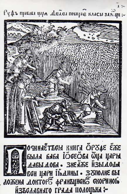 Image from "Book of Ruth" of Francysk Skaryna 1517-1519